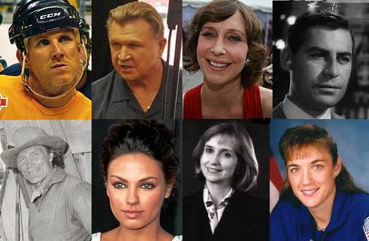 Collage of famous Ukrainian American. Up (from left to right): Keith Tkachuk, Mike Ditka, Vera Farmiga and John Hodiak. Down (from left to right): Jack Palance, Mila Kunis, Paula Dobriansky and Heidemarie Stefanyshyn-Piper.